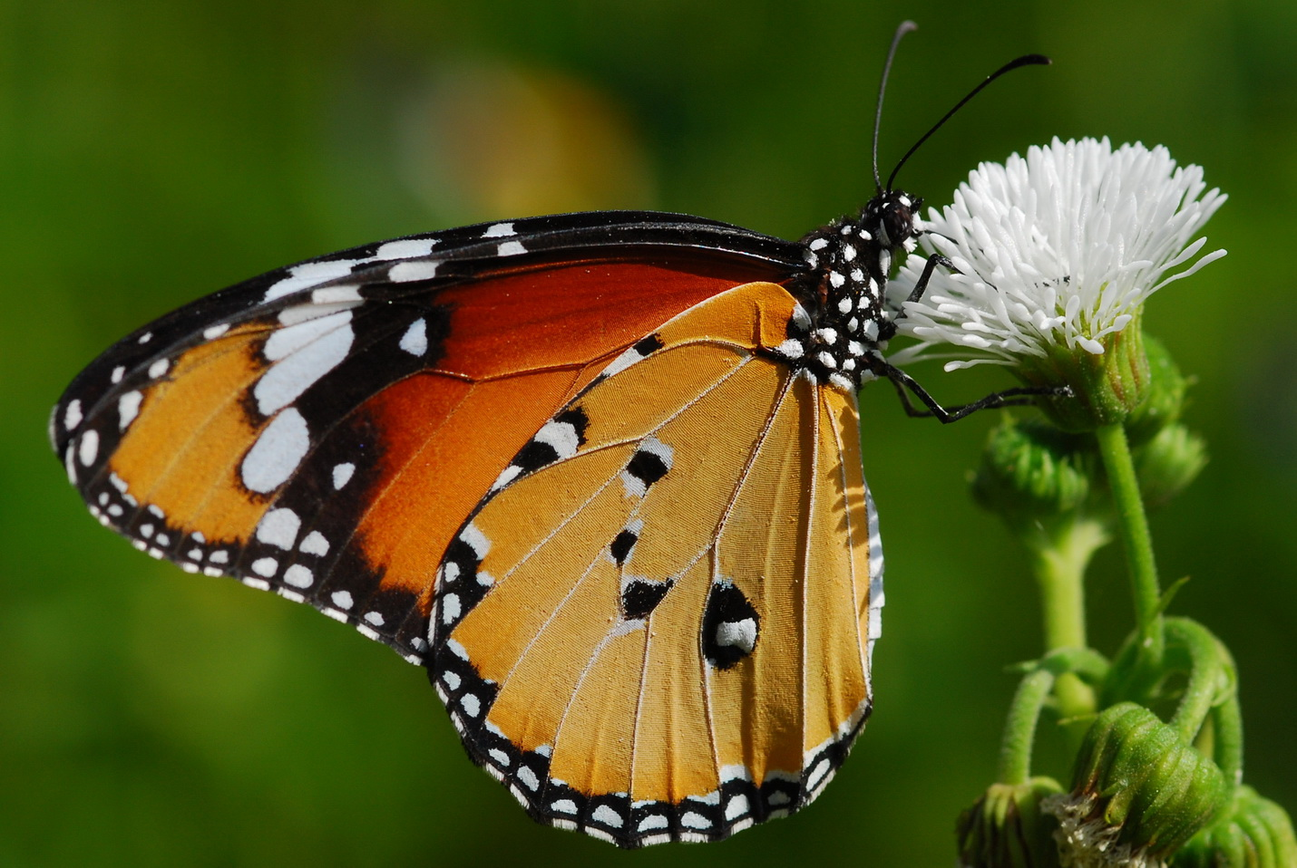 Image of Danaus_chrysippus_Male_Hsinchu City_Taiwan